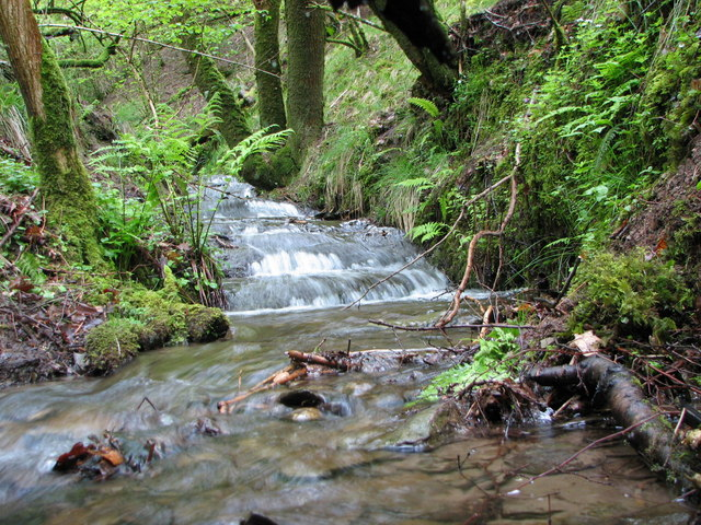 Spring runoff Small stream swollen by the rain at Fforest Fields campsite.